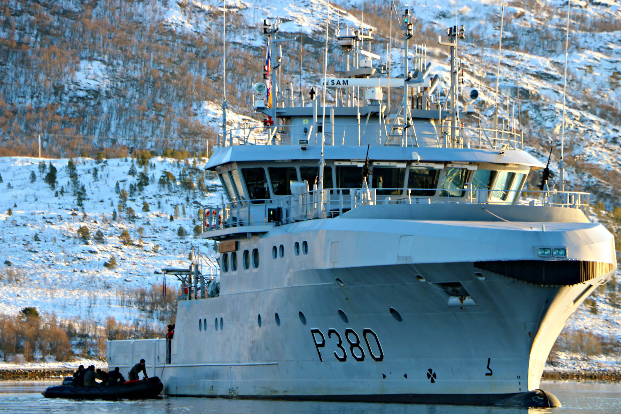 U.S. Navy sailors of :Explosive Ordnance Disposal Mobile Unit (EODMU) 8 utilize the Royal Norwegian Sea Home Guard (Sjøheimevernet) ship SHV Olav Tryggvason (P380) as an afloat forward staging base to conduct cold water diving operations off Ramsund, Norway, on 8 February 2017.:Explosive ordnance disposal (United States Navy)|Units